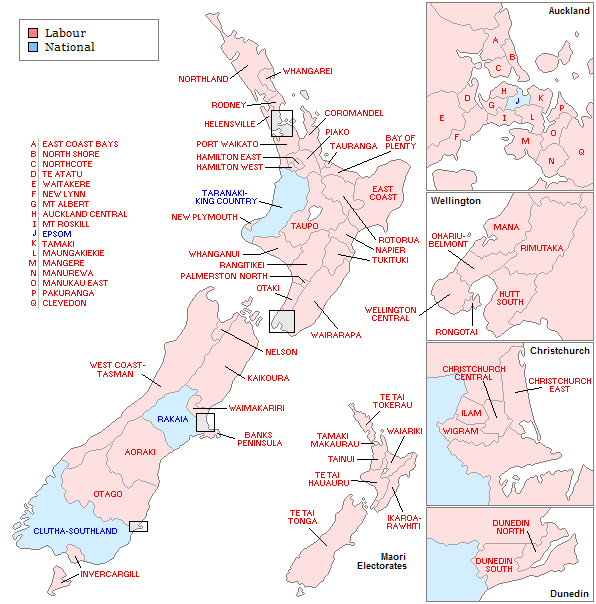 Election map depicting the party list results of the New Zealand general election, 2002. Colours denote the highest polling party in each electorate.